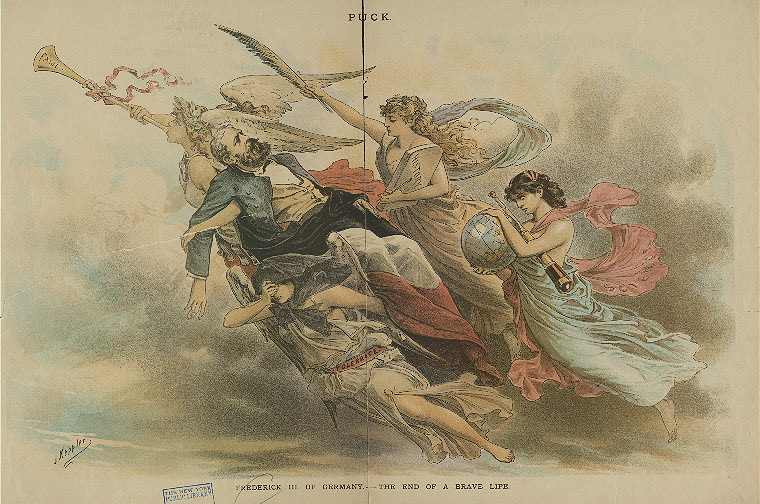 German Emperor Friedrich III of Germany - The End Of A Brave Life, published around 1888 in Puck (magazine), USA